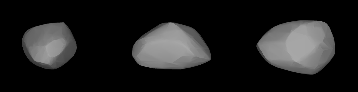 DAMIT model of Apophis generated from light curve. This assumes that all areas of the asteroid have a similar albedo and reflectivity.